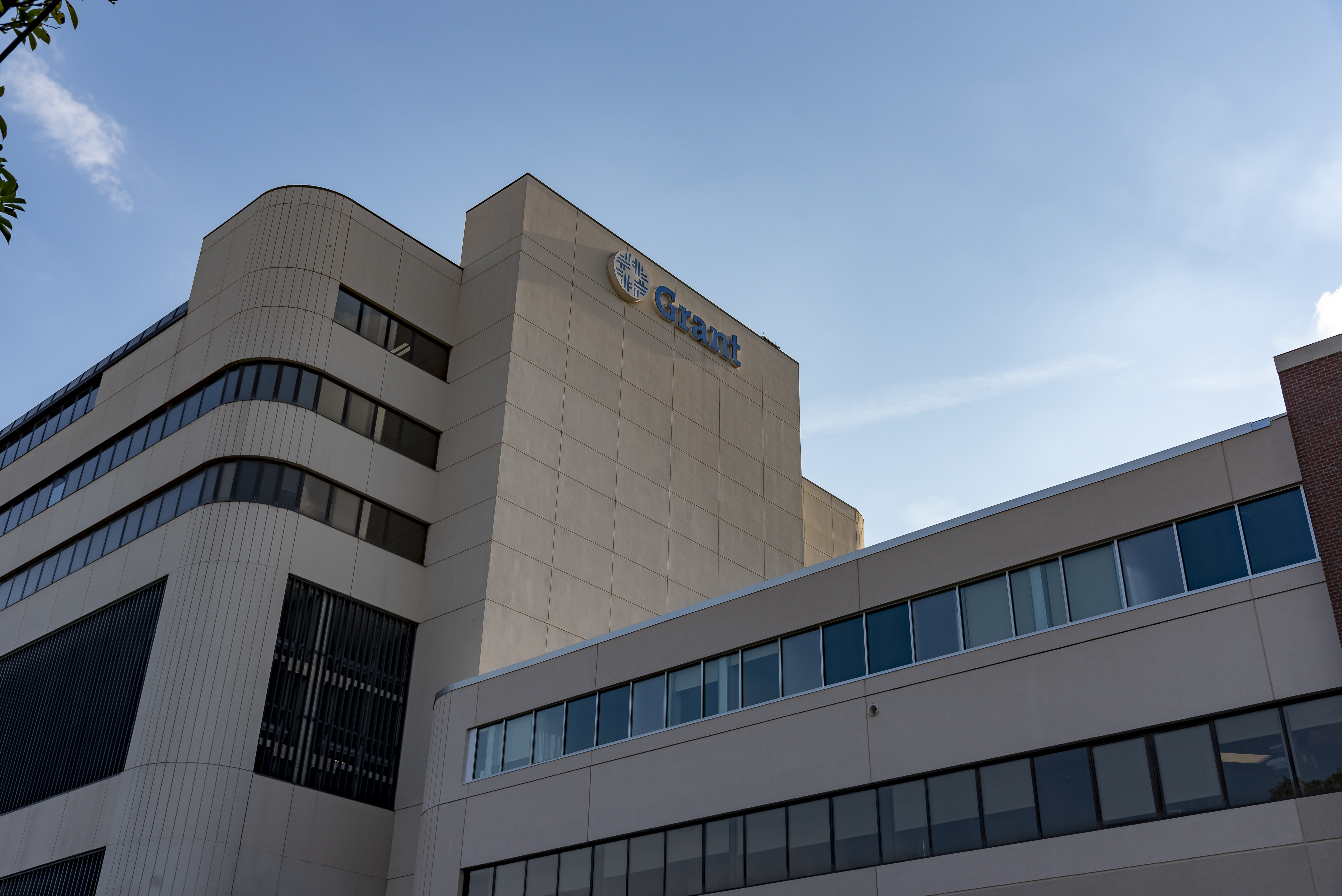 Looking southwest on South Grant Avenue, a view of the Physician's building and Grant fitness center in Grant Medical Center. The Green parking garage is located below the tower.